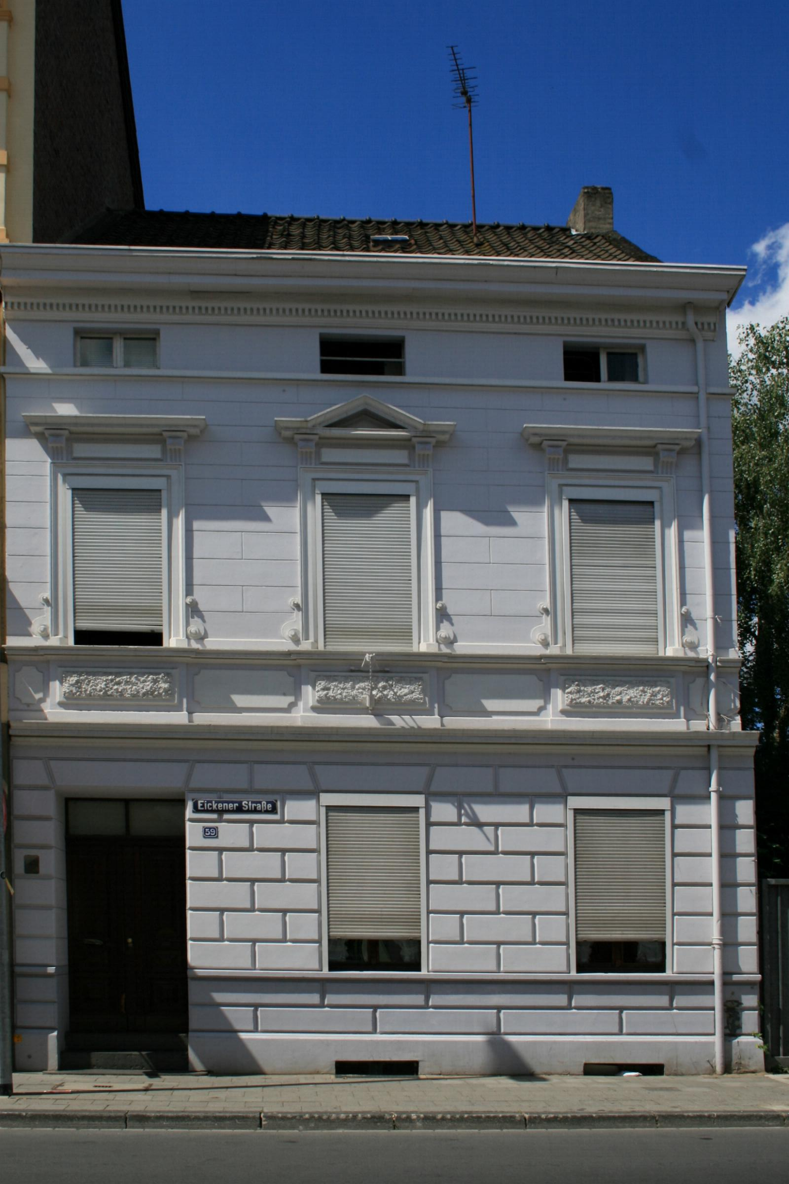 Cultural heritage monument No. E 022 in Mönchengladbach